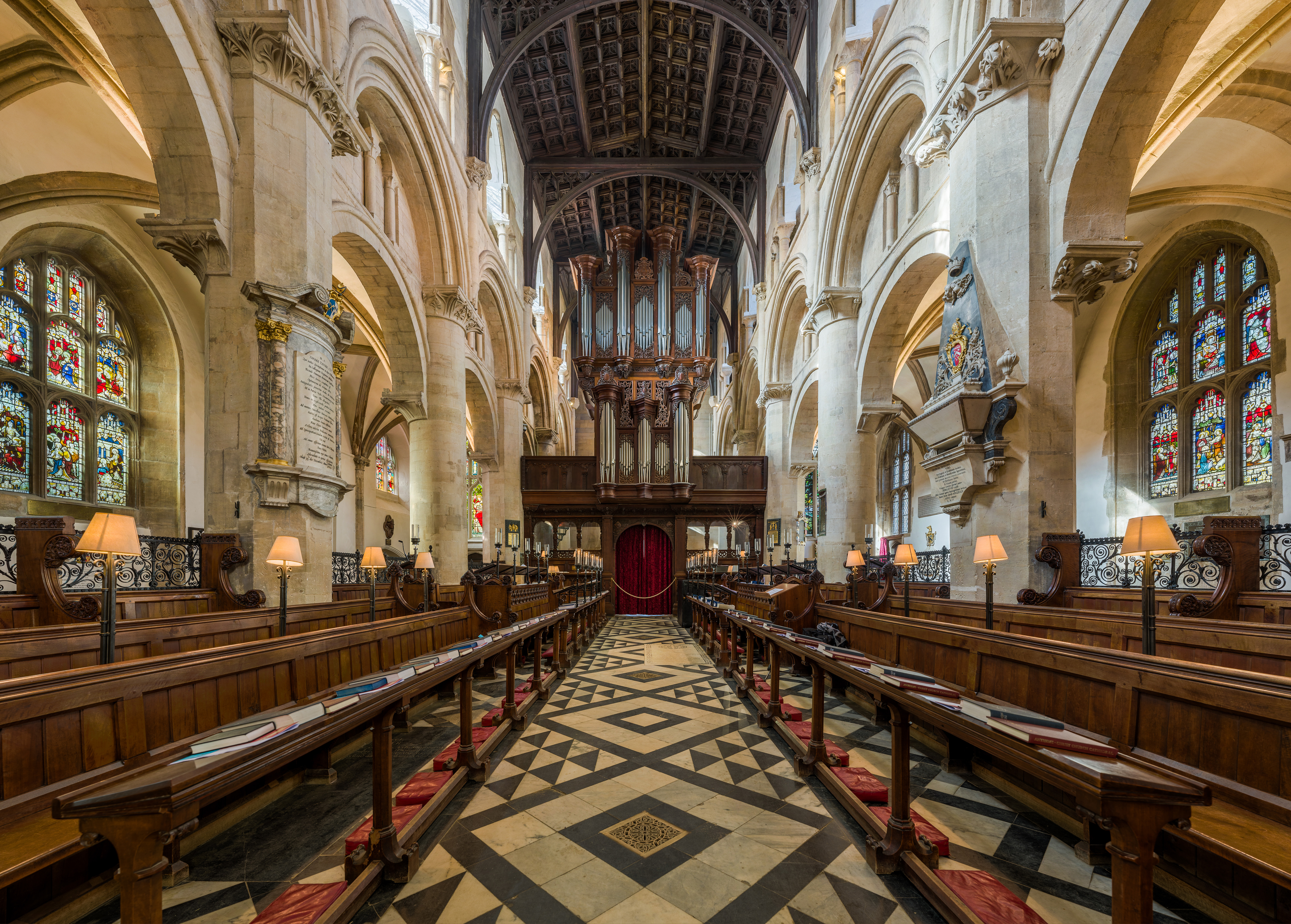 Looking west towards the organ from the nave of Christ Church Cathedral, Oxford, England. The cathedral is also the chapel for Christ Church, one of the college of the University of Oxford.